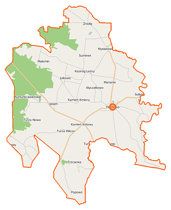 Map of Gmina Tłuchowo, Poland This map of Tłuchowo (gmina) was created from OpenStreetMap project data, collected by the community. This map may be incomplete, and may contain errors. Don't rely solely on it for navigation. Border coordinates52.820219.3404←↕→19.533352.6762